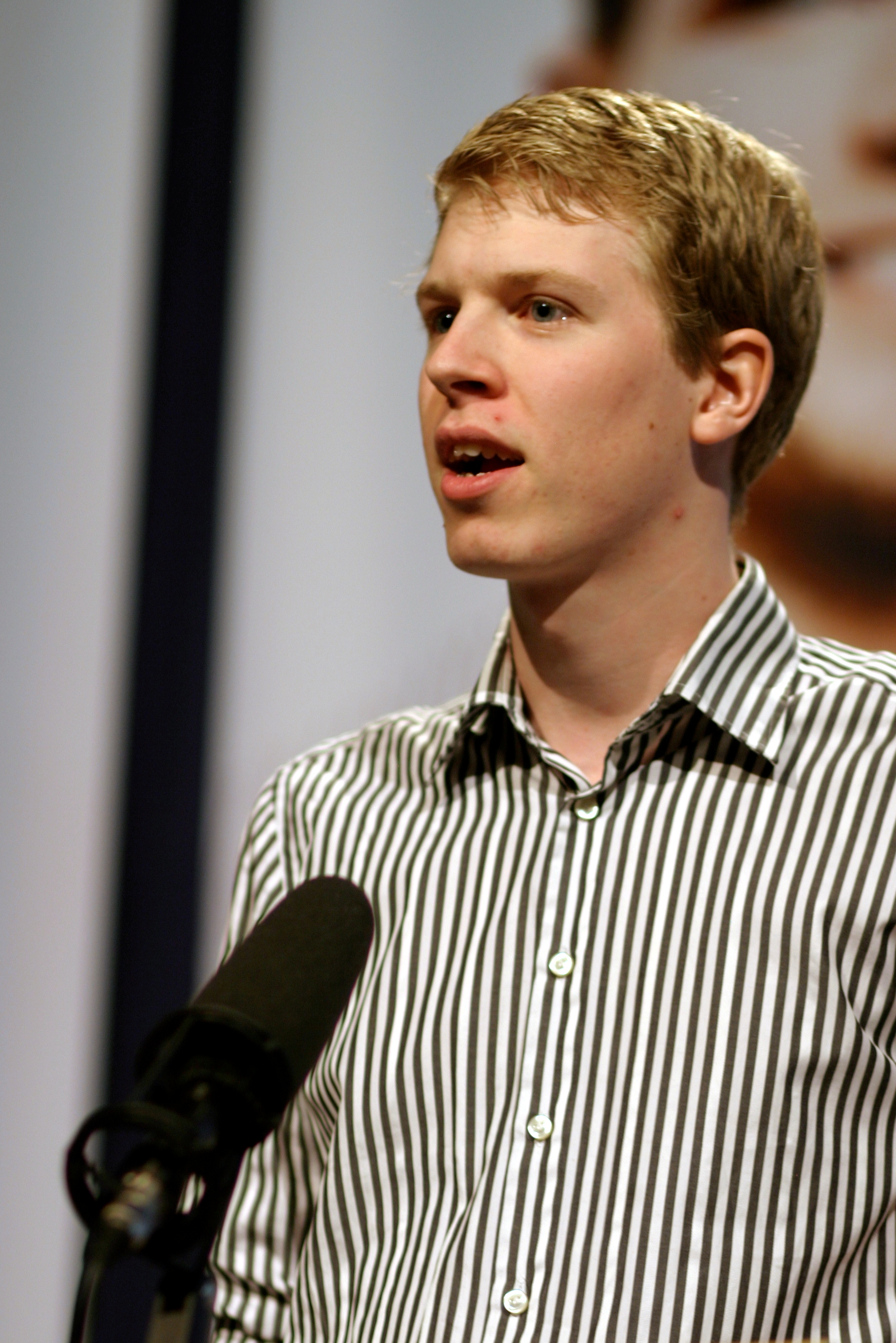 Pelle Dam, former Danish youth politician from Socialist People's Party (SF).